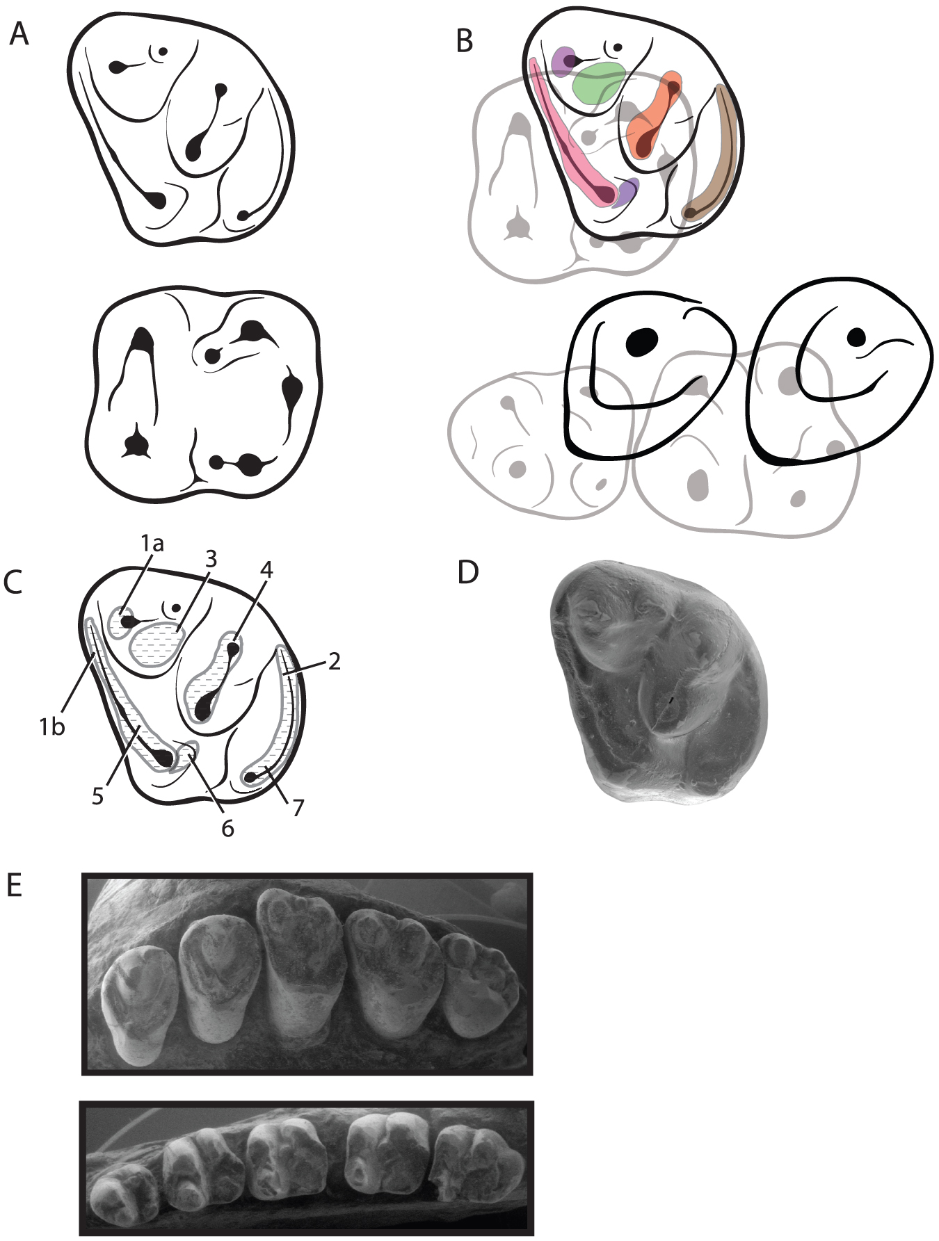 Drawings and SEM images of cheek teeth of Gomphos elkema. A, upper and lower molar teeth line drawings showing major cusps and cingula. Upper molar (above), lower molar (below), buccal to top, mesial to left in both teeth. B. Top, upper and lower molars in occlusion, buccal to top, mesial to left. Bottom, upper P3 and P4 premolars shown in occlusion with lower premolars, same orientations as molars. C, Major wear facets numbers of Crompton [31] shown on upper molar of Gomphos elkema; wear facet 7 from López-Martínez [11]. D, SEM of MAE BU 14559, M2 of Gomphos elkema for reference. E. Upper (P3–M3) and lower (P3–M3) teeth of Gomphos elkema (MAE BU 14426). Buccal to top, mesial to left in both tooth rows.